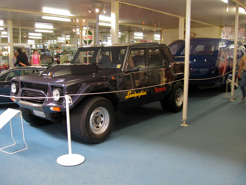 This was a one-off for some rich sheik, as far as I remember.